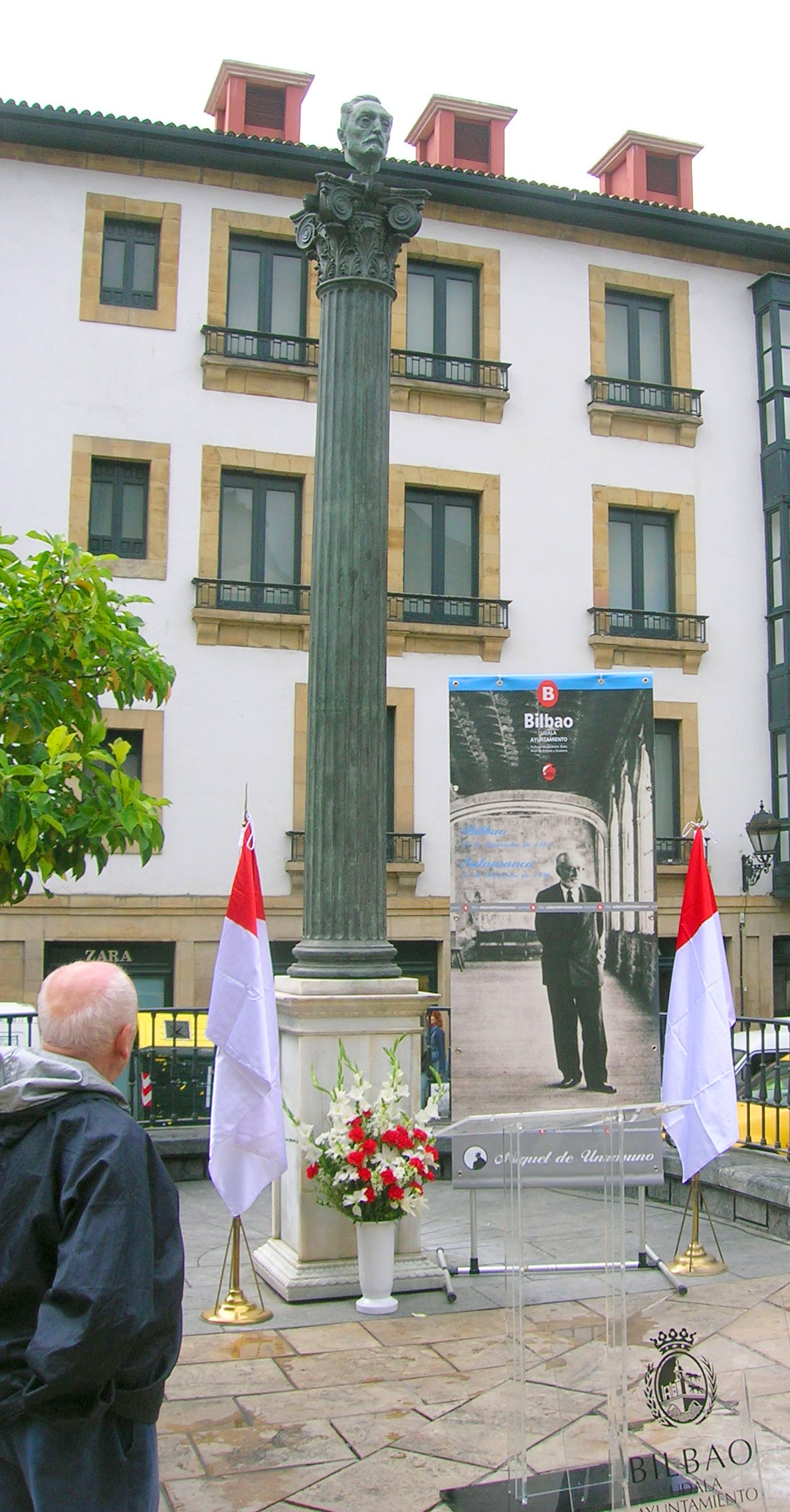 Banderas de Bilbao y flores rojas y blancas en el homenaje a Miguel de Unamuno, en la Plaza Unamuno, a unos cien metros de la casa natal del escritor, en el Casco Viejo de Bilbao, Vizcaya, España.